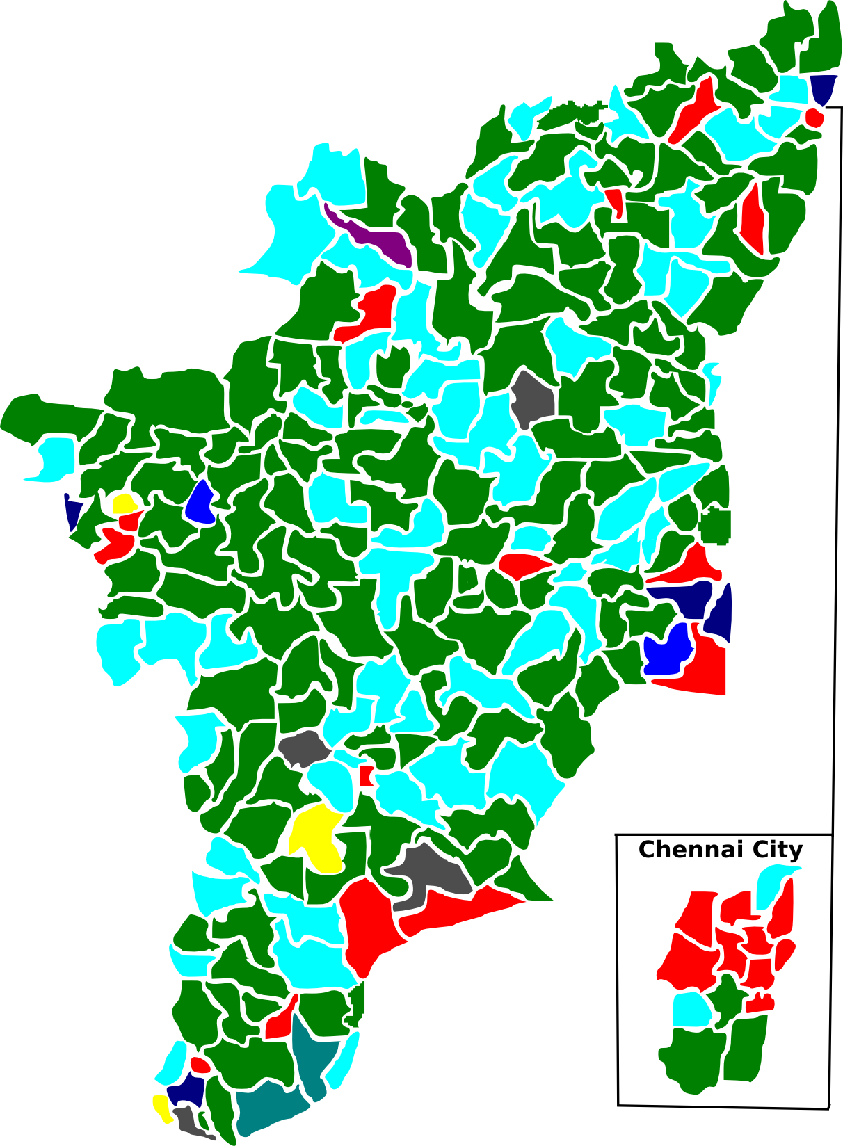 made election map using borders from ECI website using Inkscape. Results based on ECI website. [1]